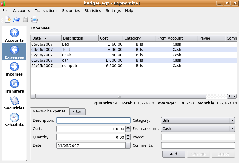 Screen shot of Eqonomize!